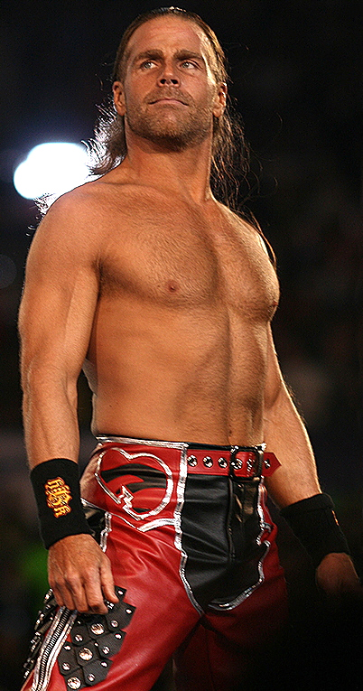 Shawn Michaels at WrestleMania 24; Mr.Wrestlemania, Shostopper ,The Icon,H.B.K(Heart Break Kid),Shawn Michaels